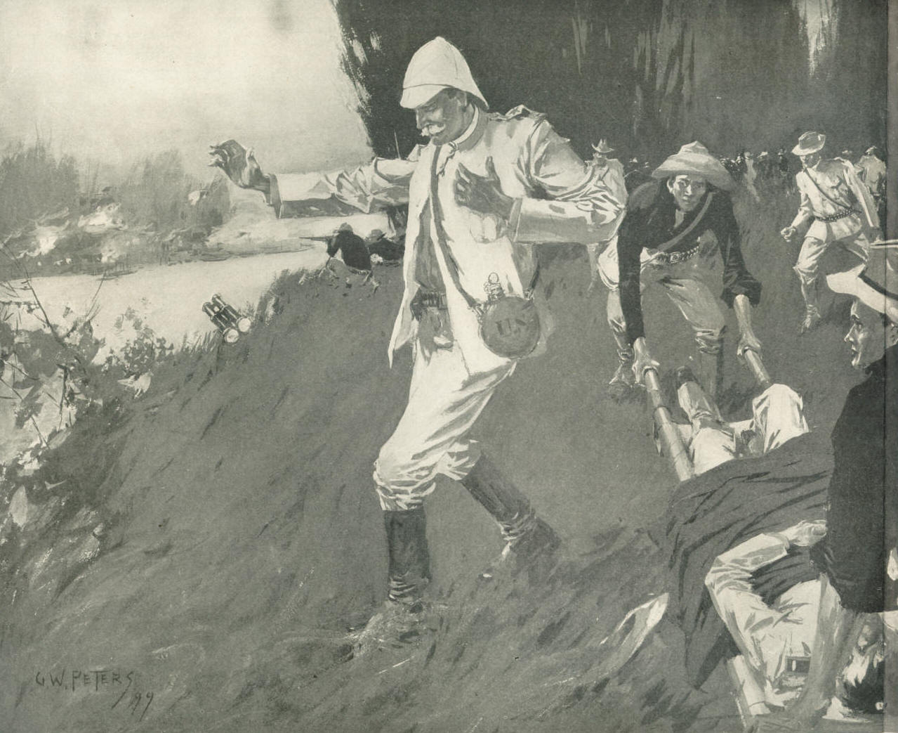 DeathatSanMateo-0